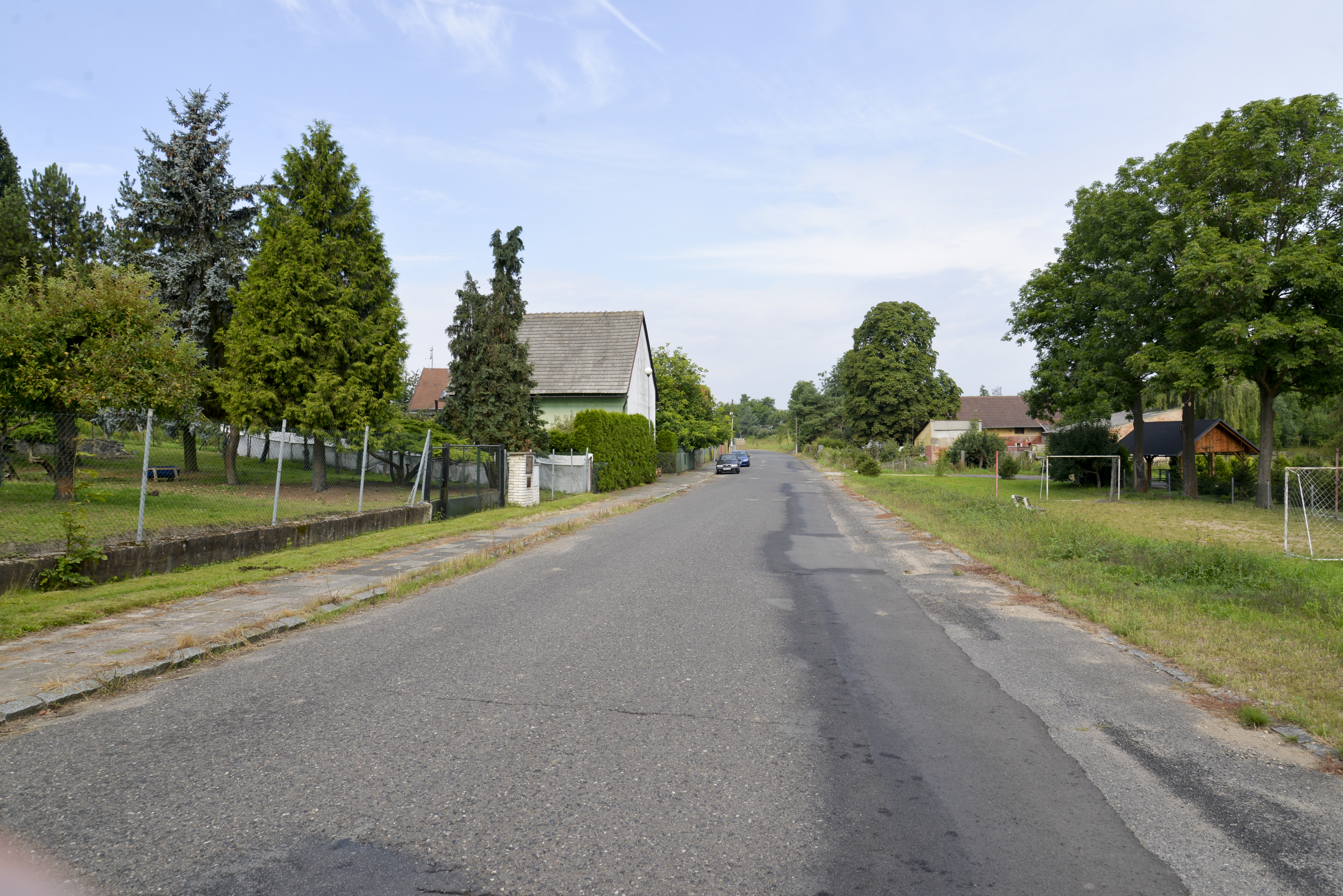 Horka - small village in Mladá Boleslav District, part of the city Bakov nad Jizerou, village green